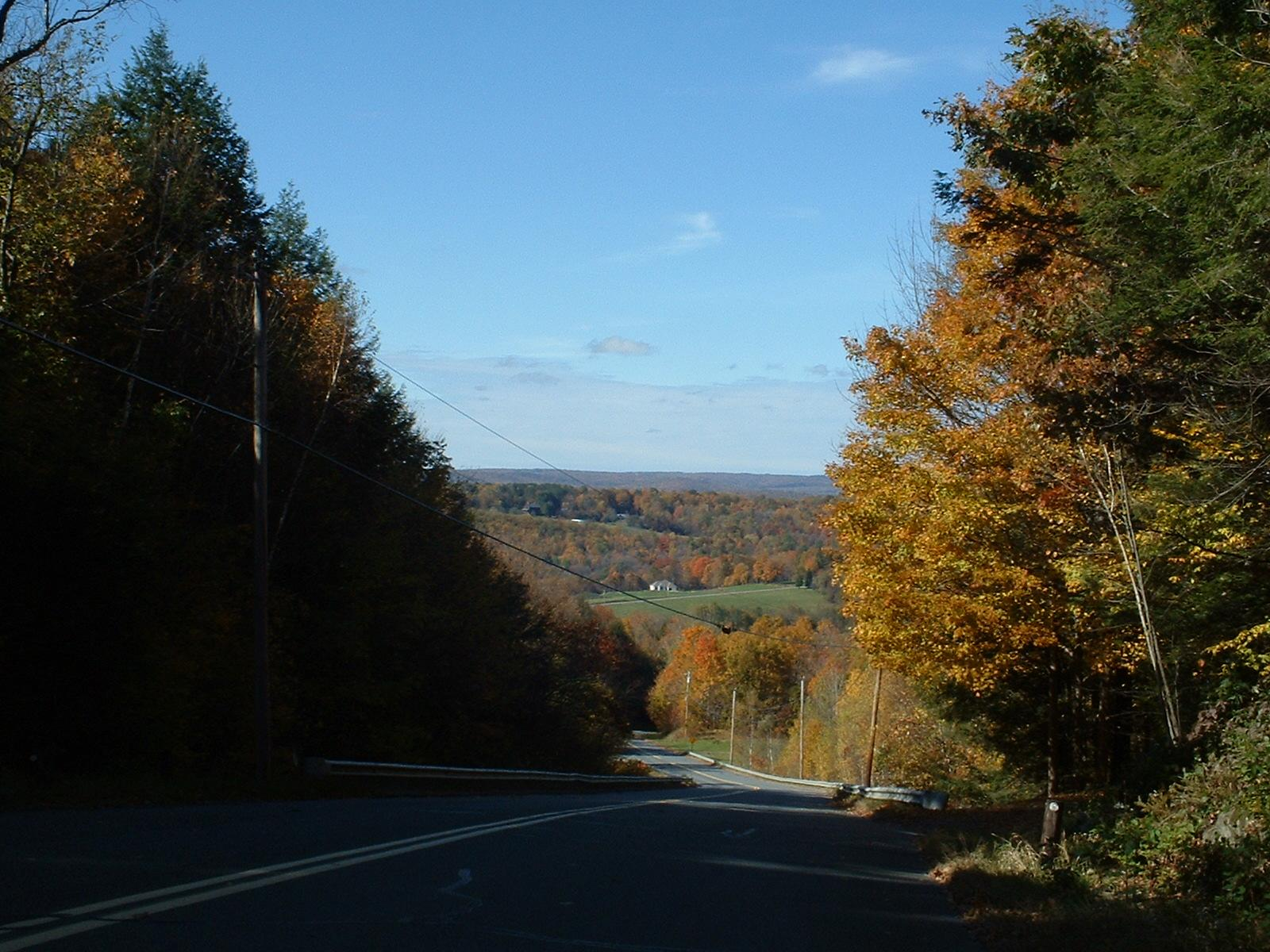 A view down Frizzell Hill, looking towards the town of Leyden, Massachusetts.